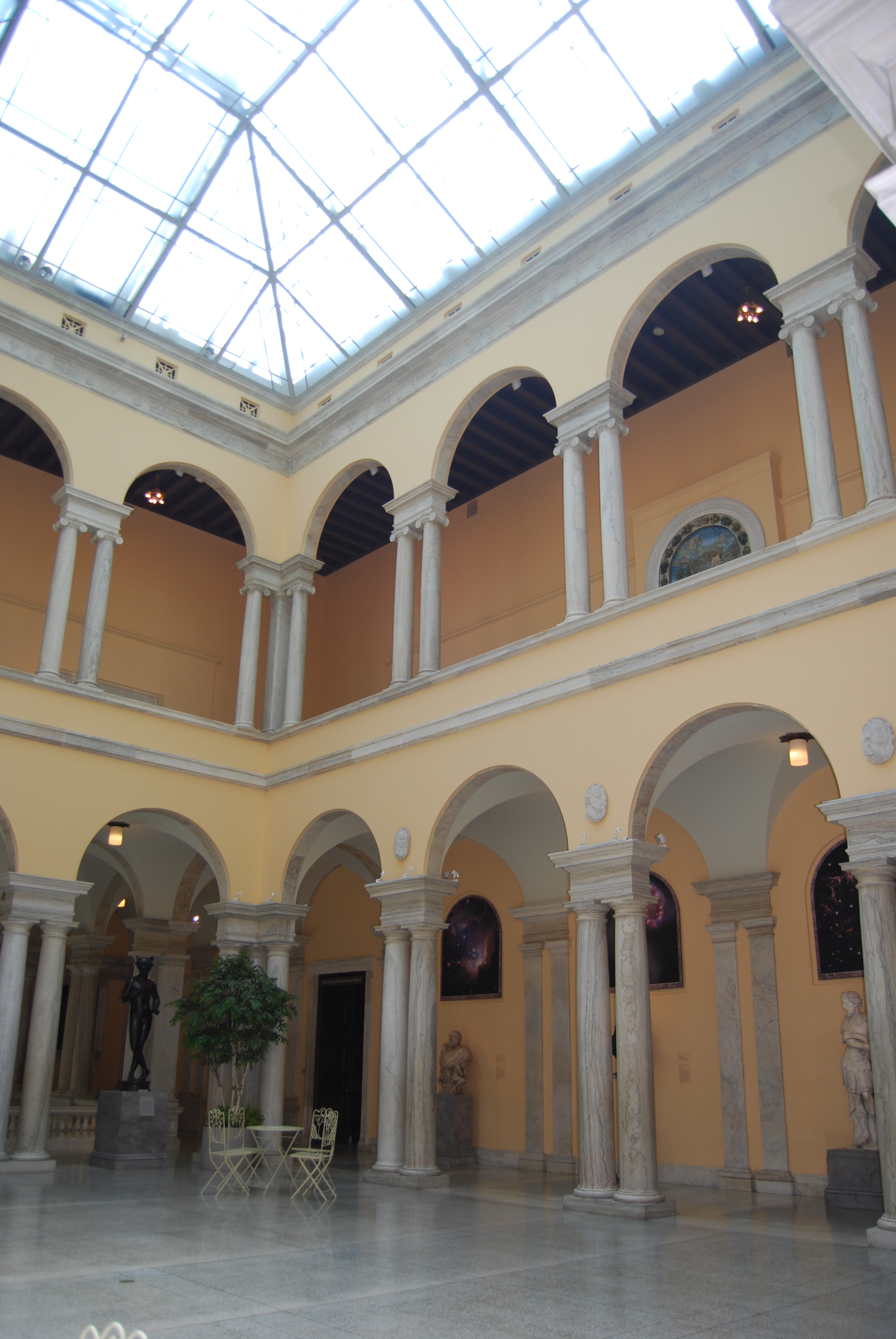 Walters Art Museum